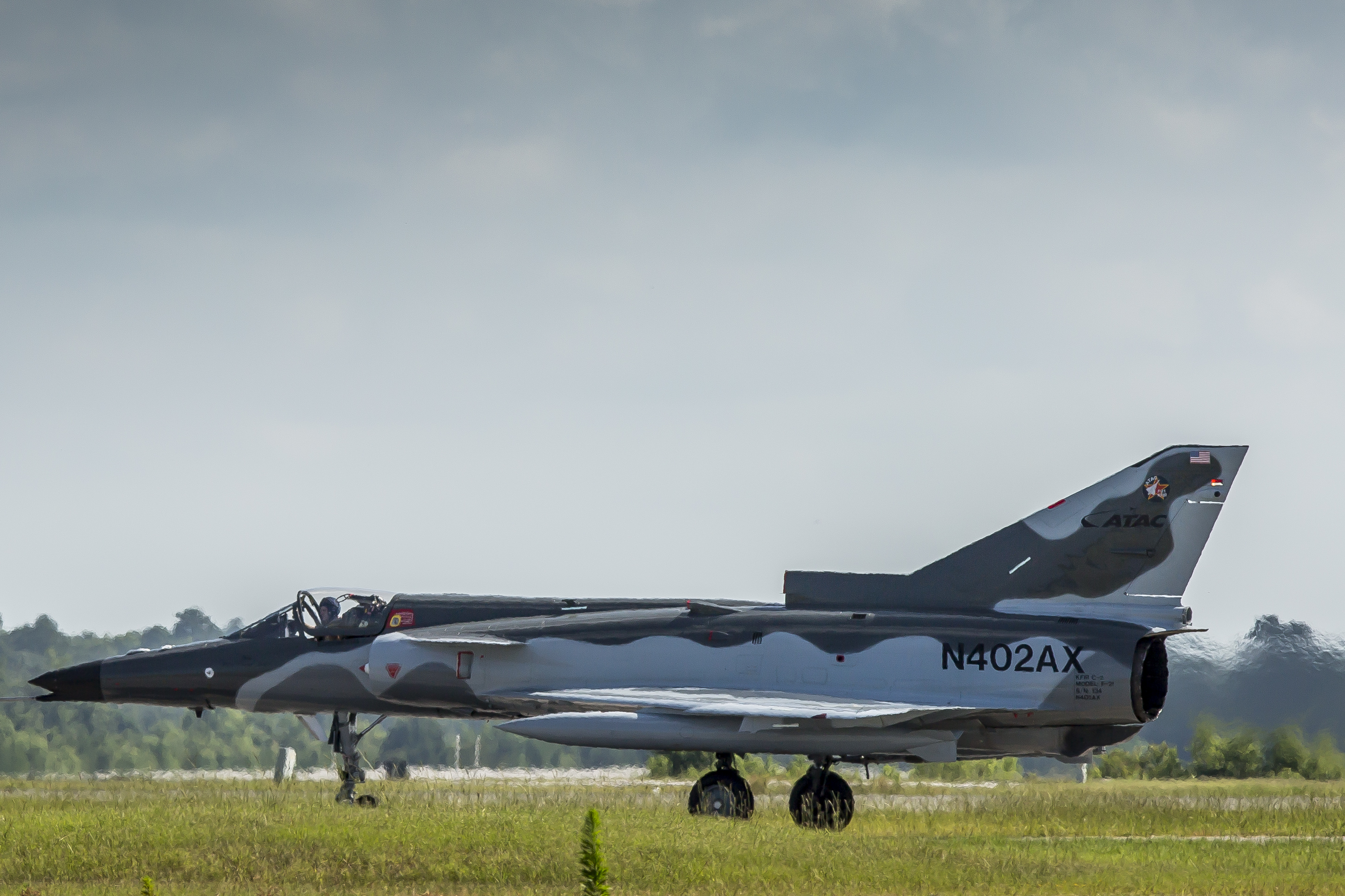 A F-21 KFIR aircraft taxis on the flight line aboard Marine Corps Air Station Beaufort June 27. The aircraft is visiting Fightertown to participate in training operations with tenant squadrons. The KFIR is with the Airborne Tactical Advantage Company. According to the ATAC website, the company has trained Navy, Marine, Air Force and Army air-crews, ship-crews, and combat controllers in the air-to-ship, air-to-air, and air-to-ground arenas.